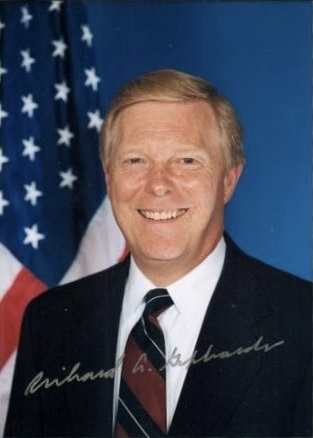 Dick Gephardt, former U.S. Representative from Missouri